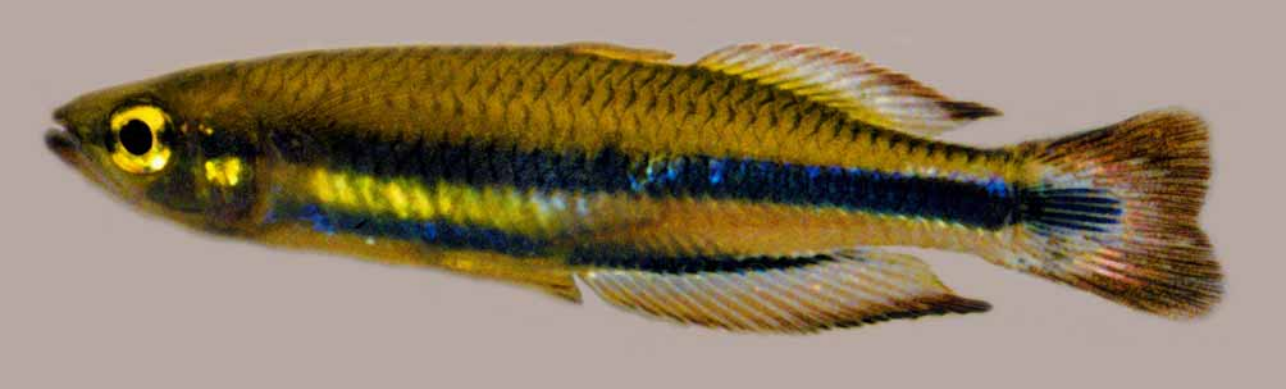 FIGURE 4. Sexually quiescent wild-caught male Bedotia geayi, Andranomaintso Creek. Not preserved.